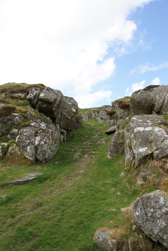 Dunadd Fort, Kilmartin Glen, Scotland - entry to upper levels of the fort